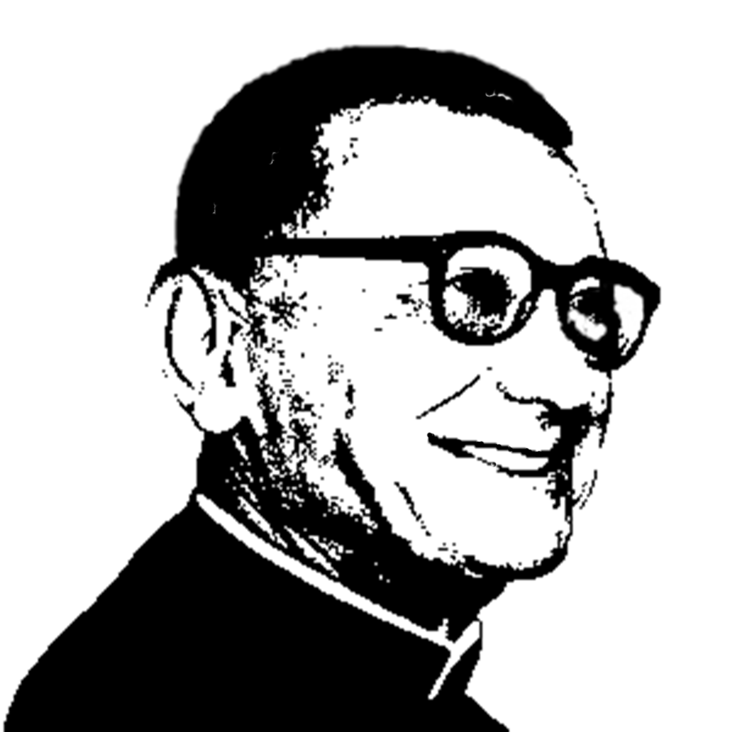 Jean Daniélou (1905–1974), French Jesuit and Roman Catholic cardinal, theologian and historian.